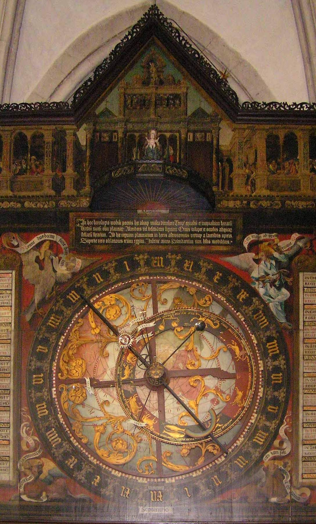 Astronomical clock in St Paul's Cathedral, Münster, Germany